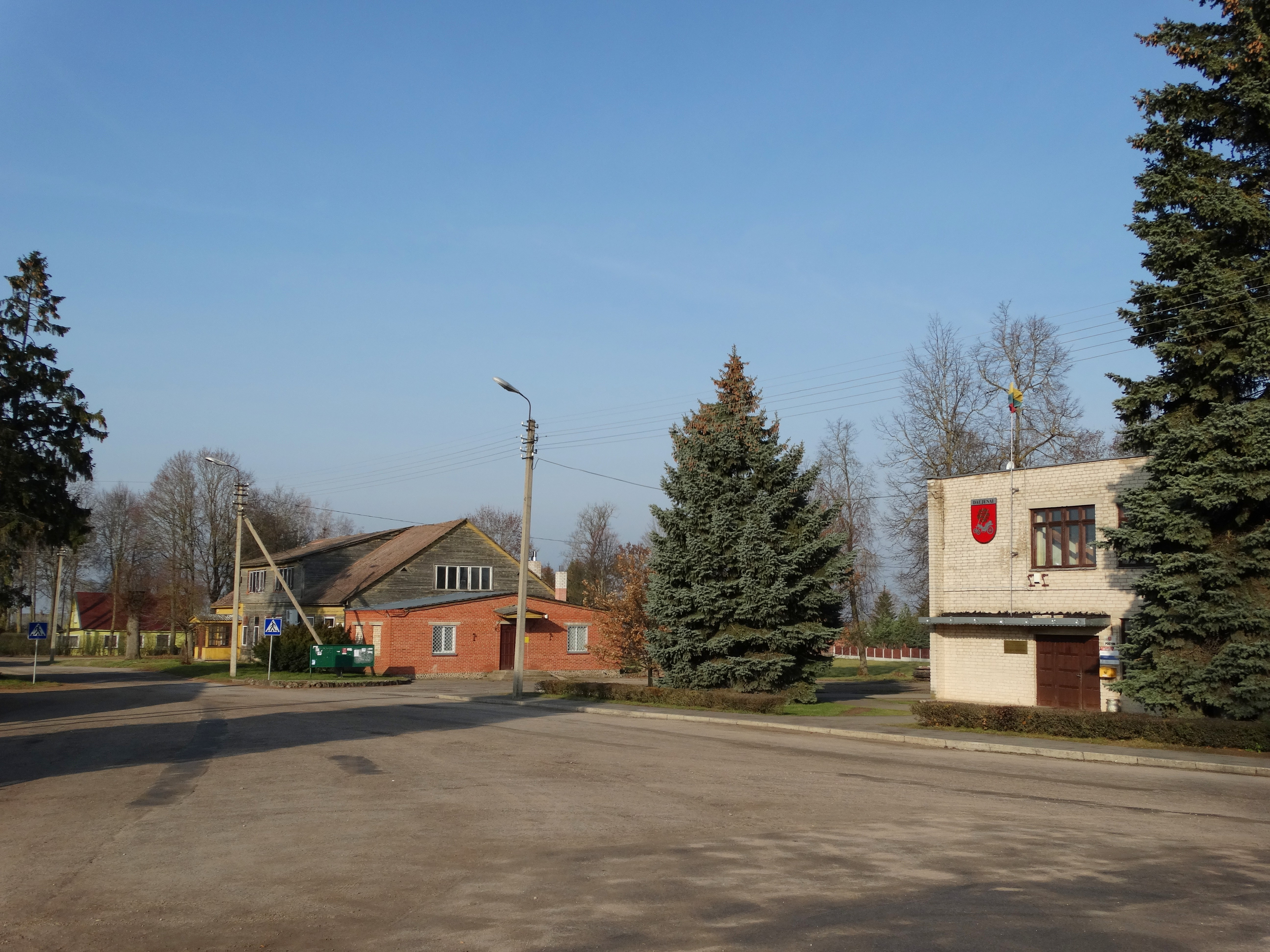 Square, Daujėnai, Pasvalys District, Lithuania